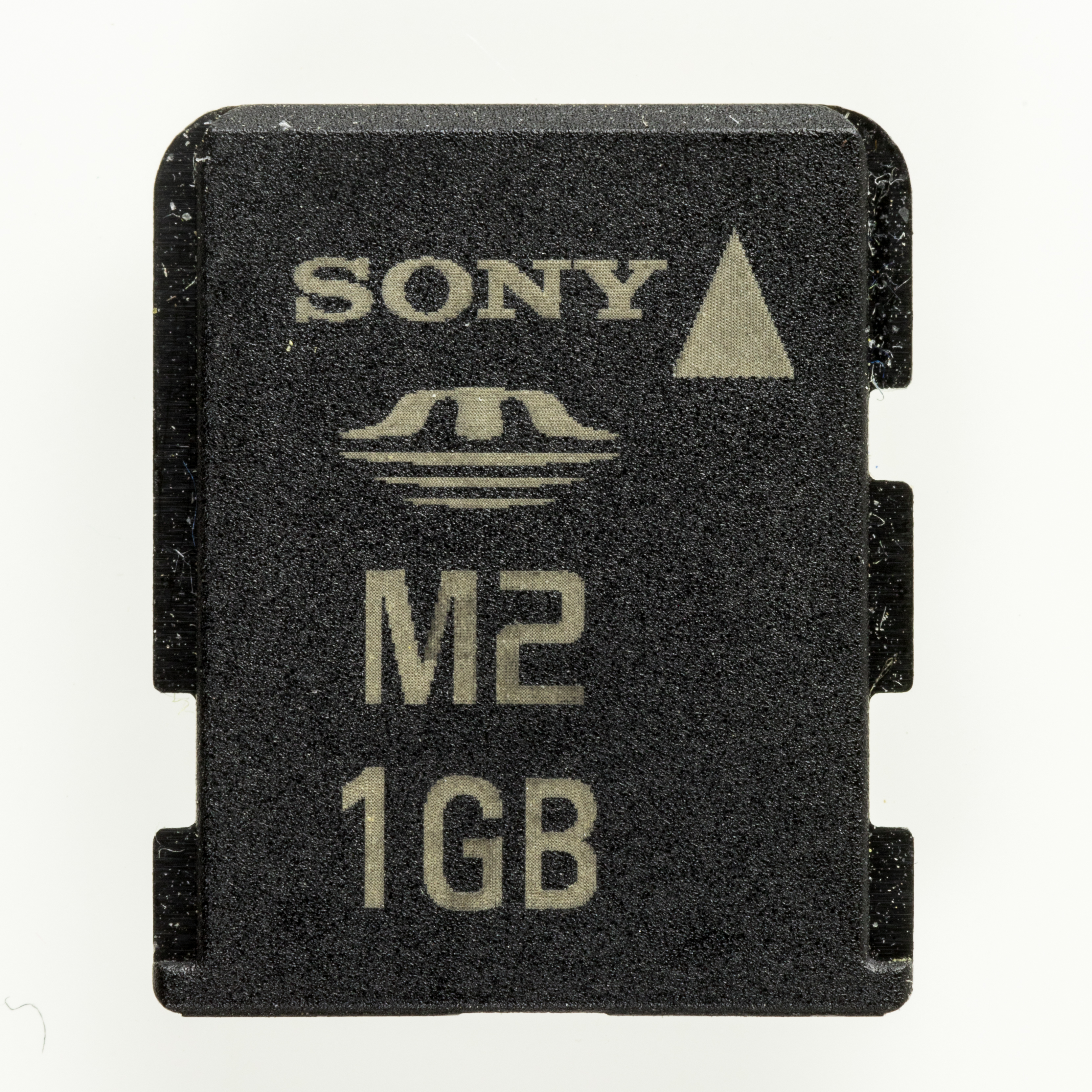 Sony Memory Stick Micro M2 - 1GB